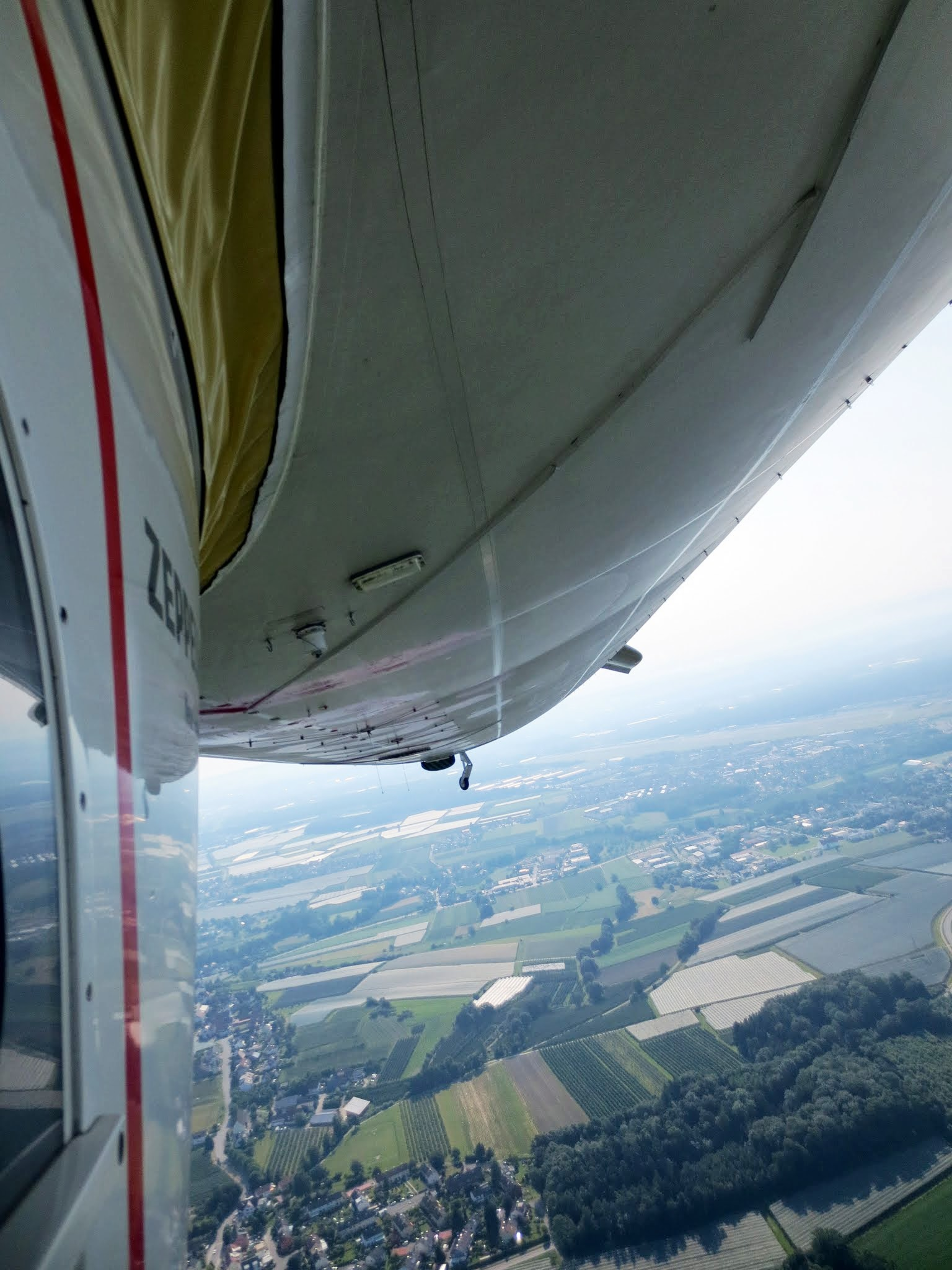 Zeppelin NT helium valve